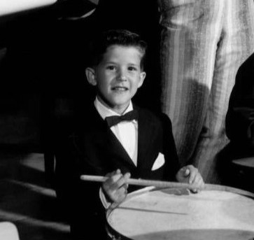 Cropped image of Keith Thibodeaux. The photo appears to have been taken at rehearsal for The Dinah Shore Chevy Show.